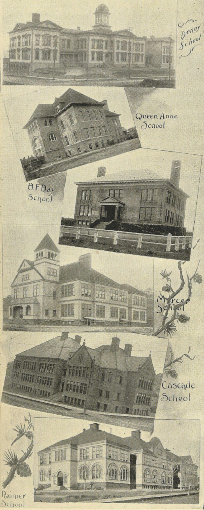 "A few school houses of Seattle", from brochure Seattle and the Orient (1900). Respectively (top to bottom): "Denny School". This school on Battery Street between 5th & 6th Avenues in Belltown opened 1884, but was demolished in 1928 as part of the Denny Regrade project. See Denny on the site of Seattle public schools. "Queen Anne School". This 1890 school between Gaylor (now Galer) and Lee Streets and between Fifth Avenue West and Sixth Avenue West was later known as the West Queen Anne School. The building was later expanded. It survives as a condominium apartment building, and is on the National Register of Historic Places. See West Queen Anne on the site of Seattle public schools. "B.F. Day School". This 1892 building (expanded 1901, extensively rehabilitated 1991) at 3921 Linden Ave N in Fremont survives as a public school. B.F. Day School home page "Mercer School". This building was at Fourth Avenue N and Valley Street near the base of Queen Anne Hill. Opened in 1890, closed and demolished in 1948, the property is now the site of the Seattle Public Schools administration building. See Mercer on the site of Seattle public schools. "Cascade School". This school, opened in 1895, closed in 1949 and demolished in 1955, stood at Pontius and E Thomas in the Cascade neighborhood. Its playfield is now the Cascade Playground. See Cascade on the site of Seattle public schools. "Rainier School". This school at 23rd Avenue S. & S. King Street opened in 1891, closed as elementary school in 1940, Reopened as unit of Edison Technical School in 1943, and finally closed and was demolished in 1943.